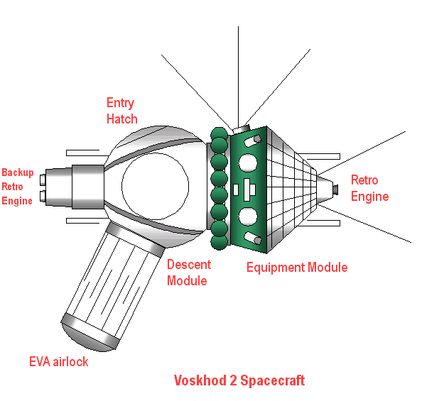 Voskhod spacecraft diagram I created this diagram in Paint Shop Pro.